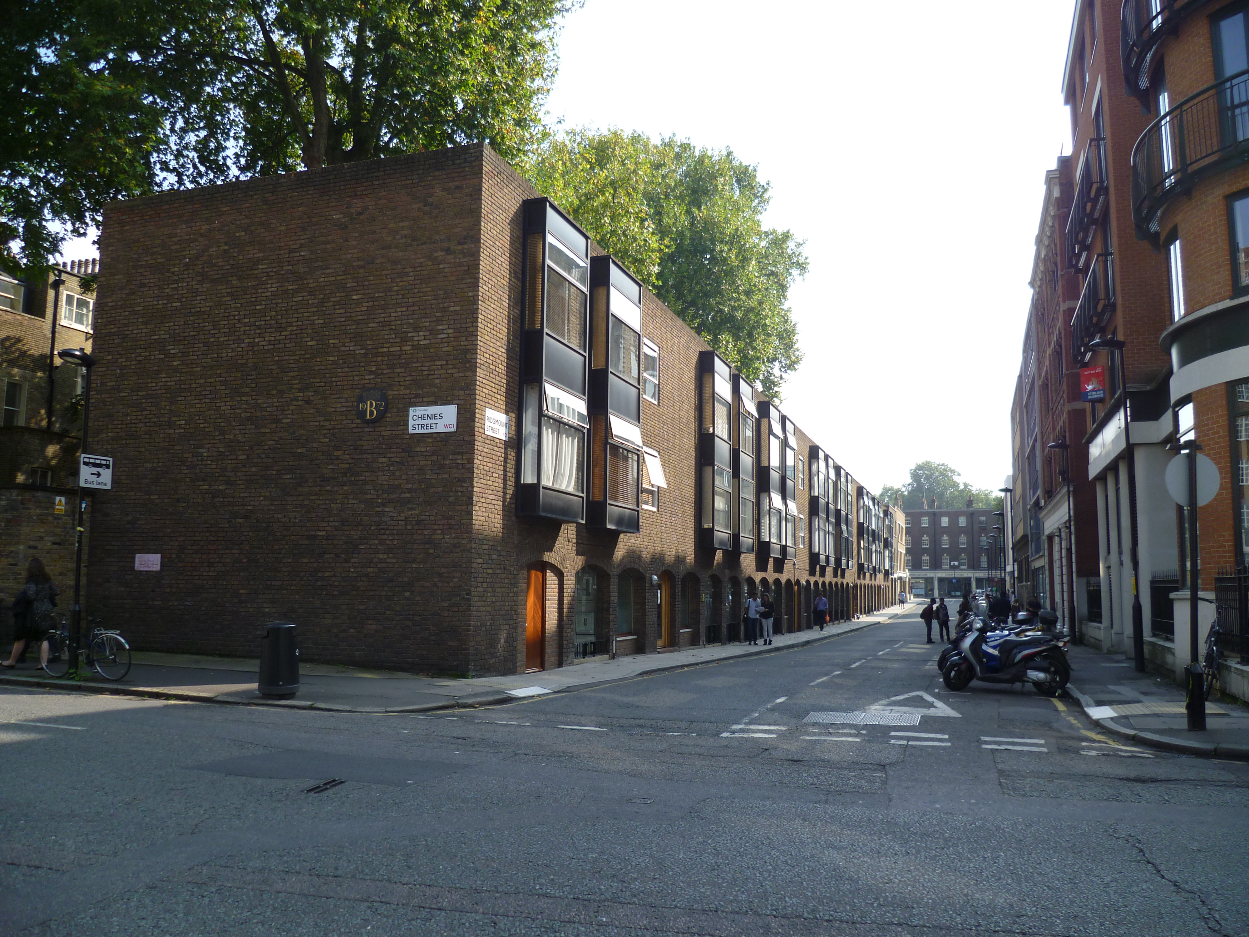 Corner of Chenies Street and Ridgmount Street.